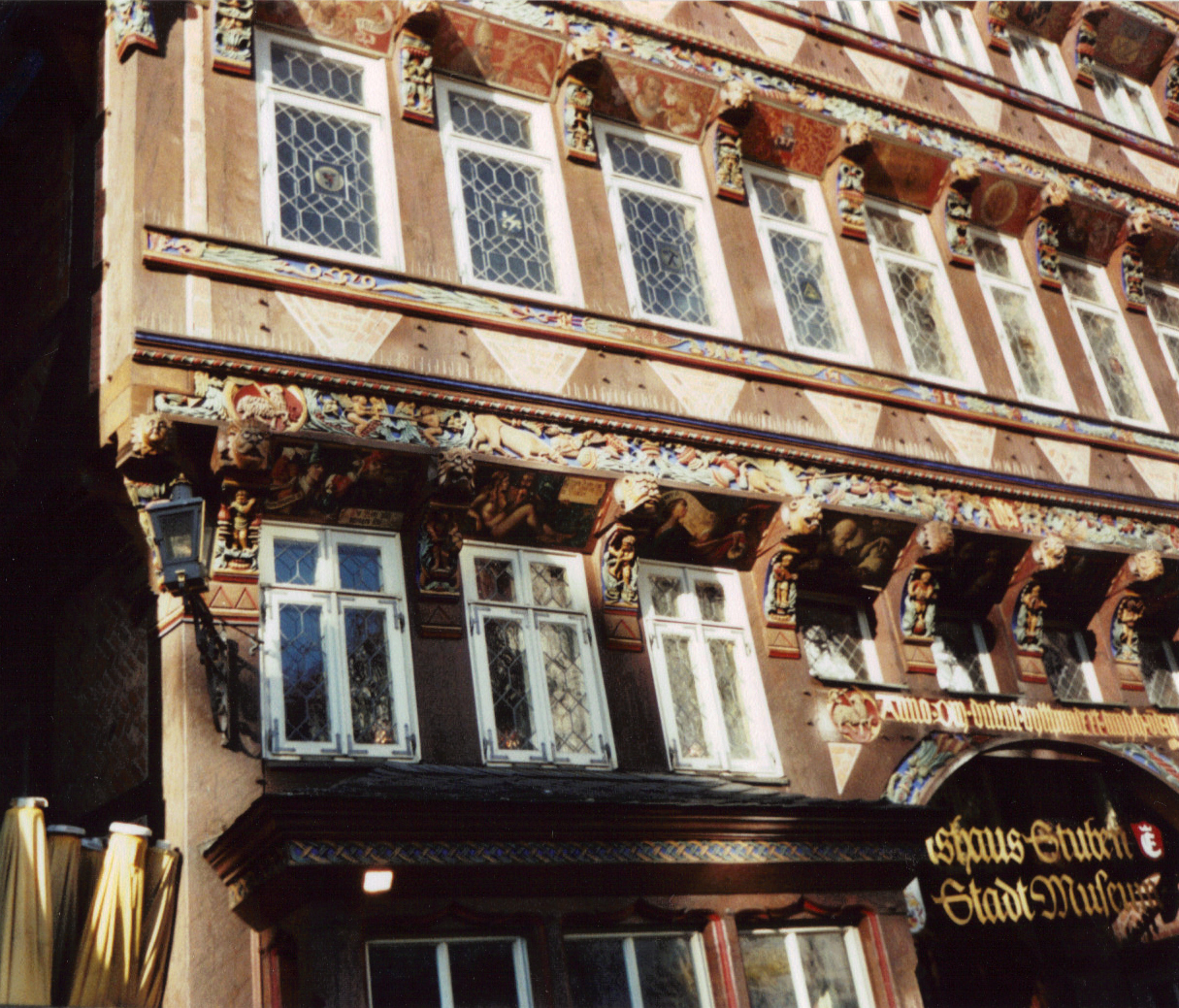 Butchers' Guildhall, Hildesheim